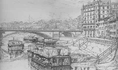 Seujet embankment in Geneva.